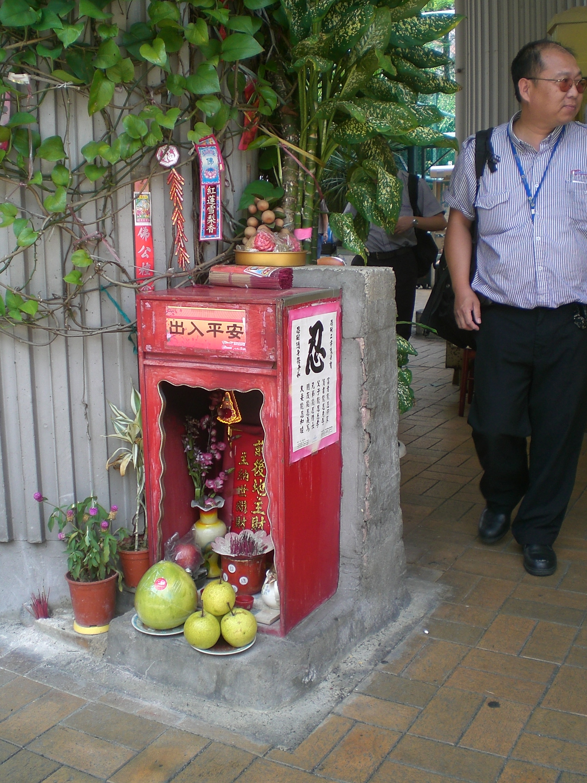 銅鑼灣銅鑼灣 (摩頓台) 巴士總站辦公亭旁的財神土地神